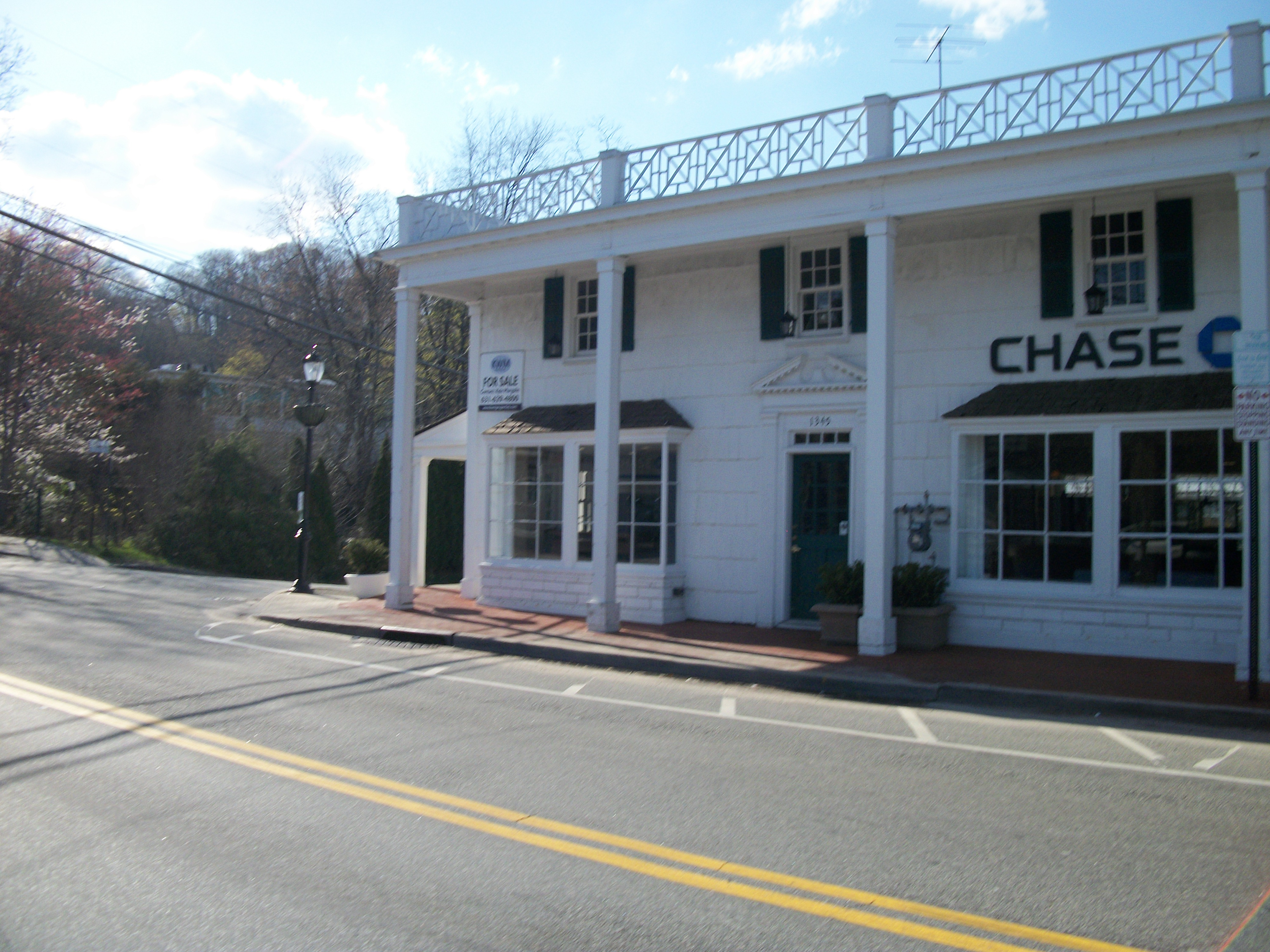 The NRHP-listed Hicks Lumber Company Store in Roslyn, New York, currently a former branch of the Chase Manhattan Bank, which is for sale.